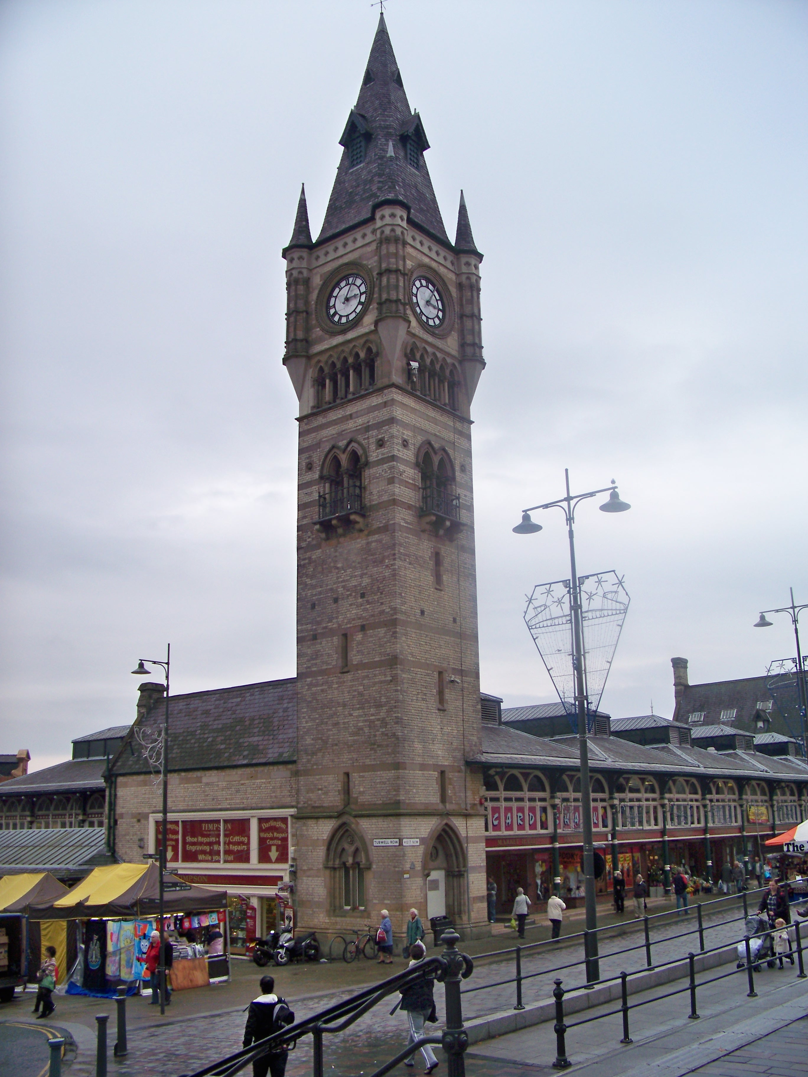 Darlington Market Hall. Taken on a Monday in October 2009.